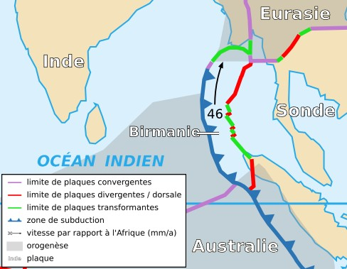 Map of the Burma Plate